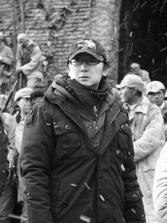 Director Lu Chuan shots his 3rd film "Nanking! Nanking!" at the set near Changchun City.